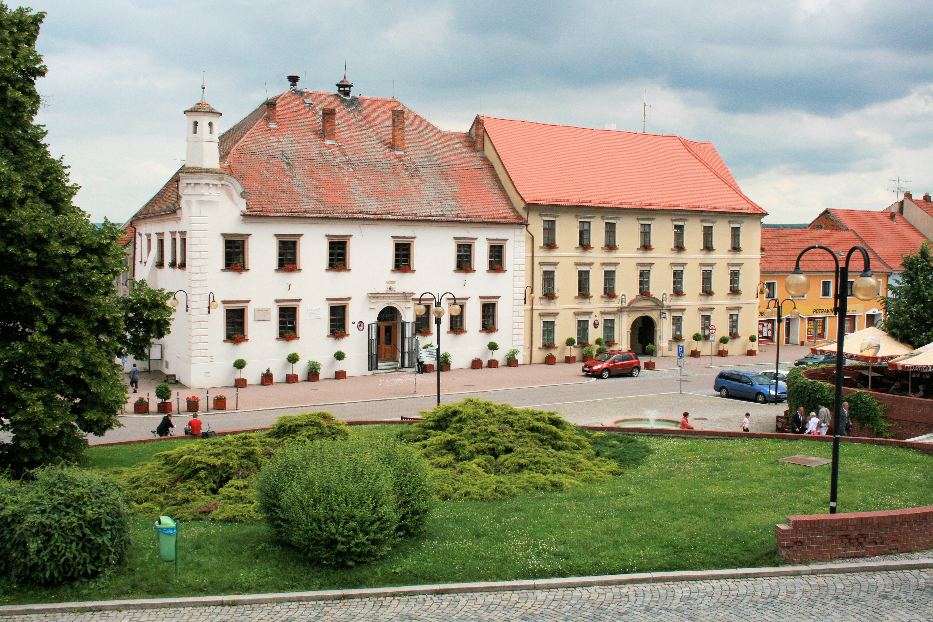 Town hall at Palackeho square, Slavkov u Brna (Austerlitz). Česky: Původně renesanční radnice a policejní stanice na Palackého náměstí 64-65 ve Slavkově u Brna. Pohled ze západu od zámku.